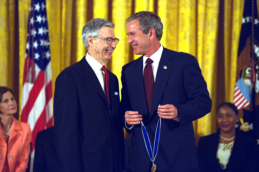 President George W. Bush presents the Presidential Medal of Freedom Award to Fred Rogers July 9, 2002, during ceremonies in the East Room. Photo by Paul Morse, Courtesy of the George W. Bush Presidential Library